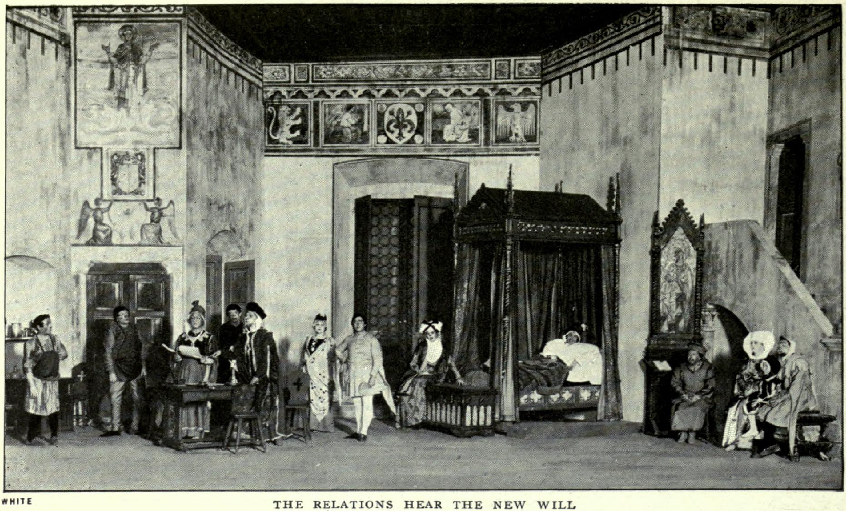 A scene from Puccini's opera Gianni Schicchi. The Donati relatives listen to the reading of the will.